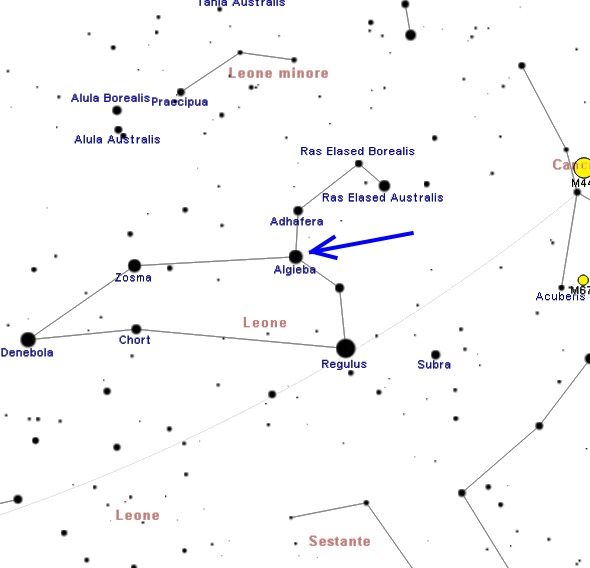 Algieba